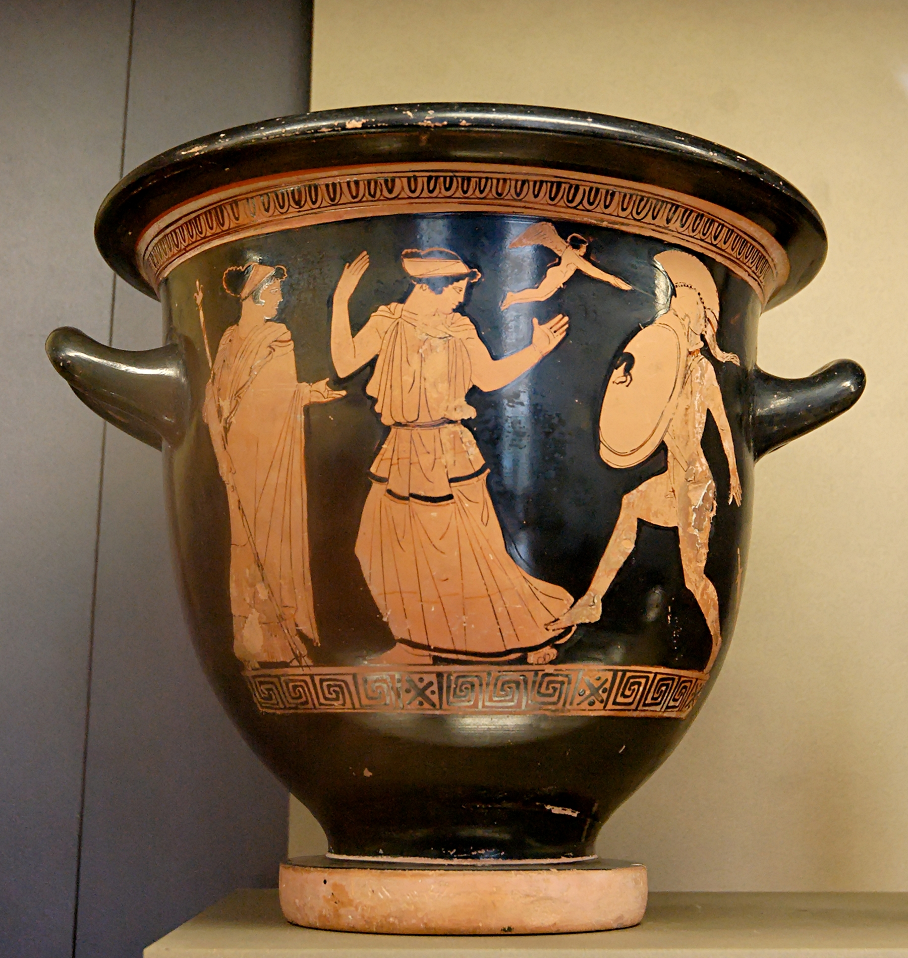 Menelaus intends to strike Helen; struck by her beauty, he drops his swords. A flying Eros and Aphrodite (on the left) watch the scene. Detail of an Attic red-figure crater, ca. 450–440 BC, found in Gnathia (now Egnazia, Italy).